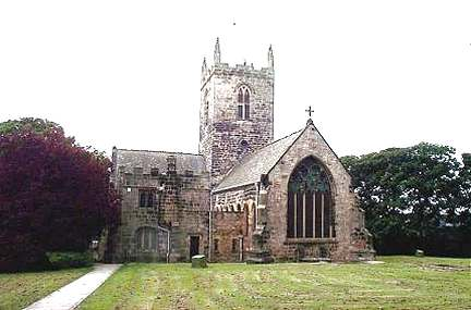 St Michael & All The Angels parish church, Houghton-le-Spring, County Durham